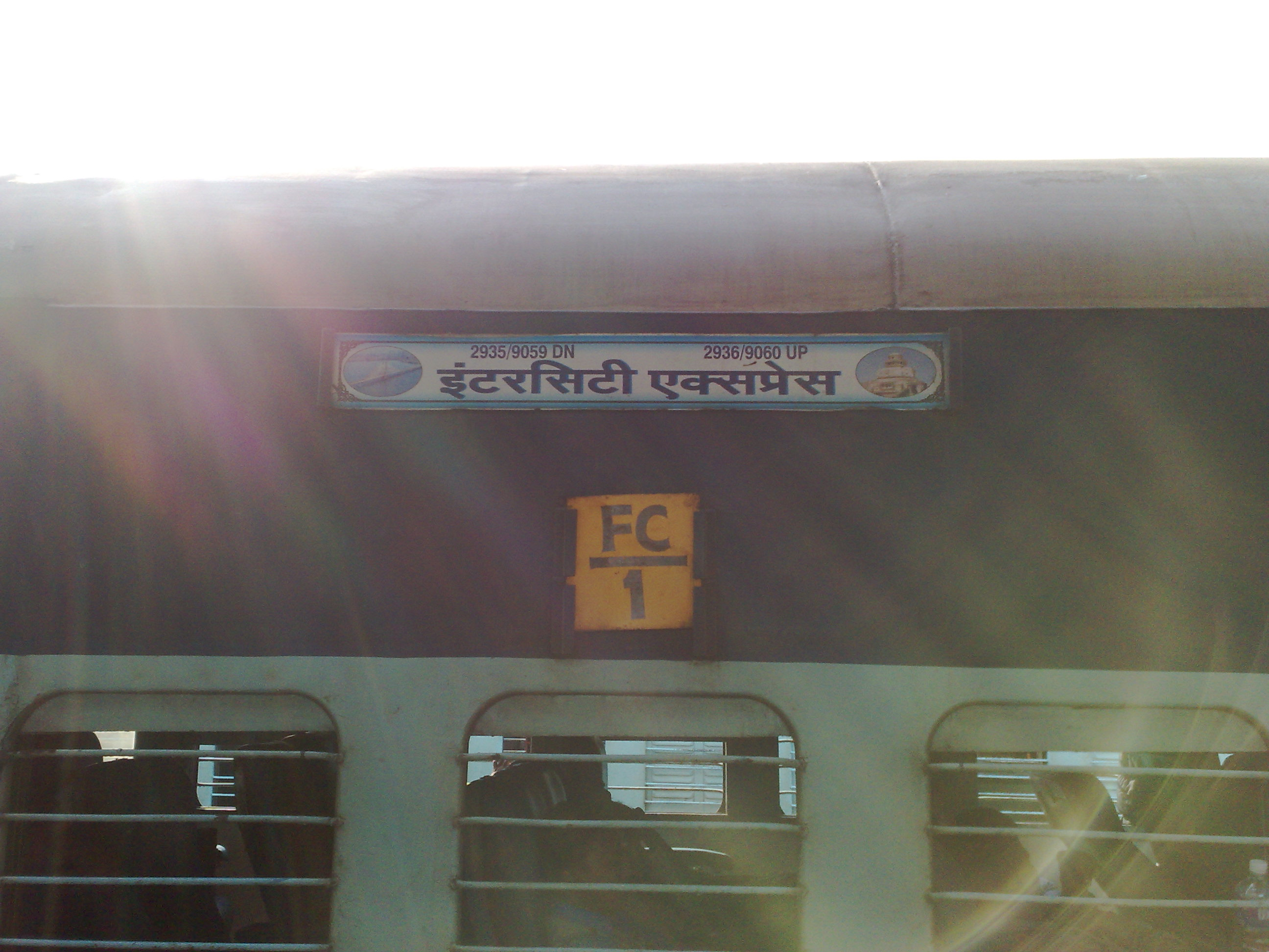 2936 Surat Bandra Intercity 1st Class coach